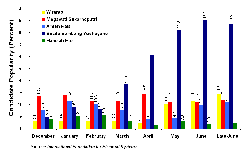 Results of tracking surveys conducted by the International Federation for Electoral Systems of the popularity of candidates in the 2004 Indonesian presidential election.